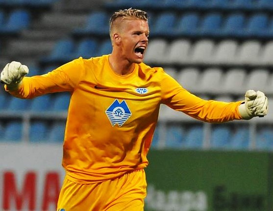 Ørjan Nyland